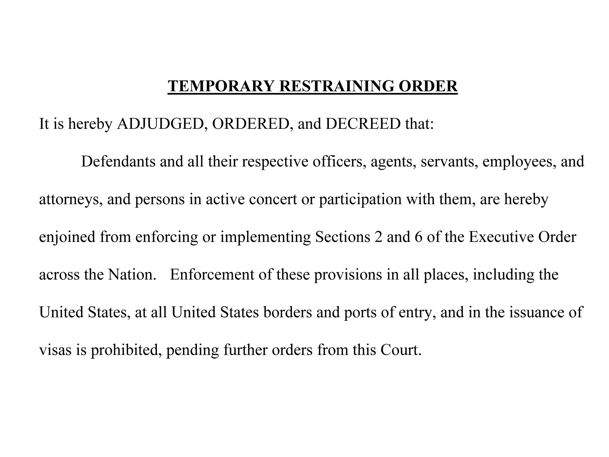 Temporary Restraining Order against EO 13780, page 42